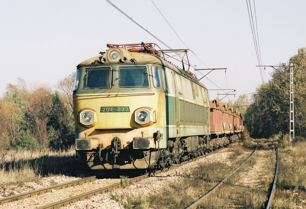 Locomotive 201E-277 of Kopalnia Piasku Kuźnica Warężyńska with a sand train between Szczakowa Północ and Jęzor Centralny JCA stations